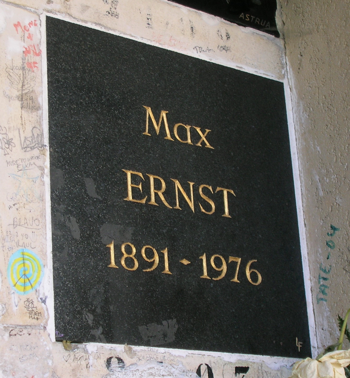 Urn-grave and commemorative plaque of Max Ernst in the columbarium of the Père-Lachaise Cemetery (Paris, France)